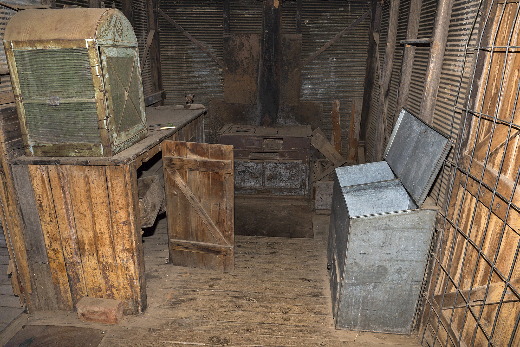 Mobile Cook's Galley located at the Botanic Gardens site of the Museum of the Riverina in Wagga Wagga. Listed on the NSW State Heritage Register